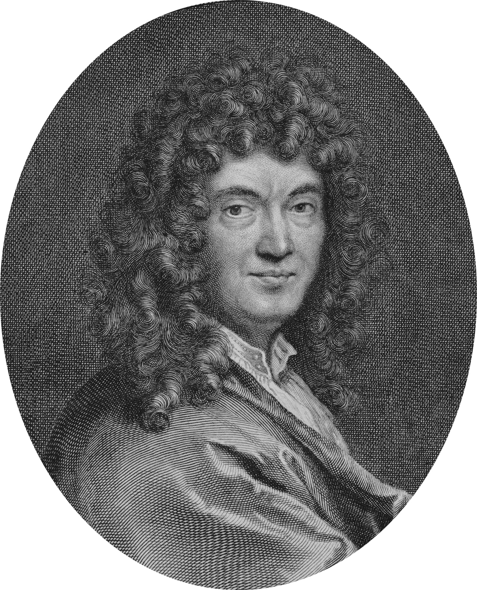 Engraved portrait of Claude Perrault (1613–1688), French architect and physician, and member of the Académie des Sciences, founded in 1666.